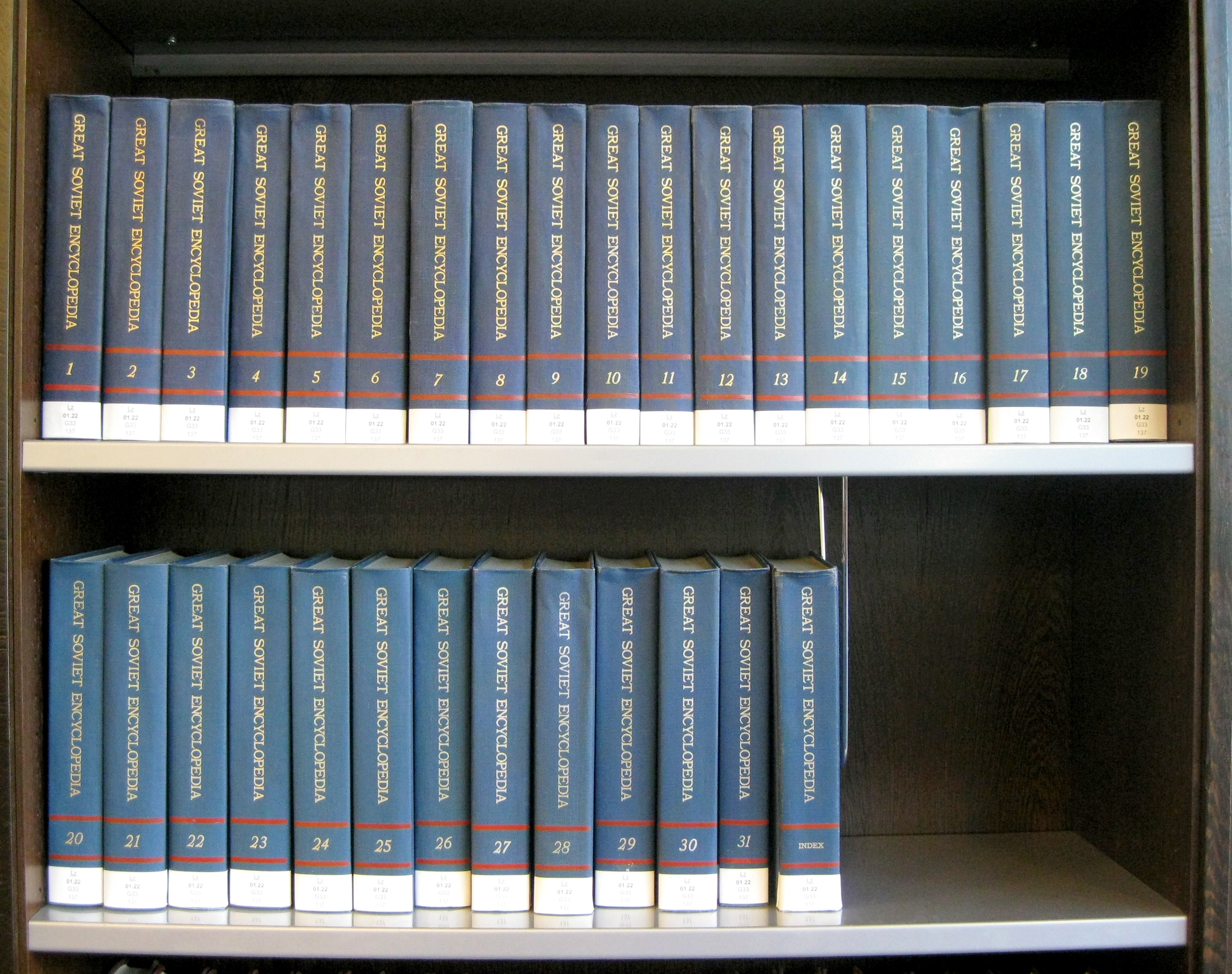 Great Soviet Encyclopedia (in English), University Library of Nijmegen